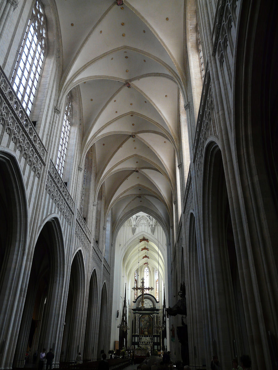 Cathedral of Our Lady, Antwerp, Belgium